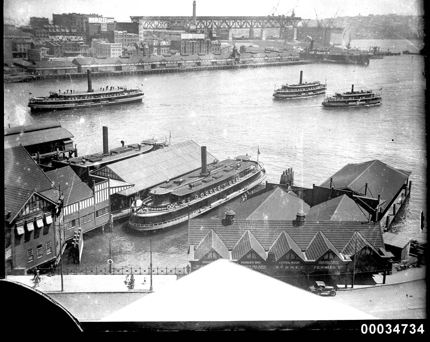 This photograph depicts various Sydney ferries sailing into the Circular Quay wharves. In the foreground is KOREE, with either KUTTABUL or KOOMPARTOO in the background to the left. This photo is part of the Australian National Maritime Museum’s Samuel J. Hood Studio collection. Sam Hood (1872-1953) was a Sydney photographer with a passion for ships. His 60-year career spanned the romantic age of sail and two world wars. The photos in the collection were taken mainly in Sydney and Newcastle during the first half of the 20th century. The ANMM undertakes research and accepts public comments that enhance the information we hold about images in our collection. This record has been updated accordingly. Photographer: Samuel J. Hood Studio Collection Object no. 00034734